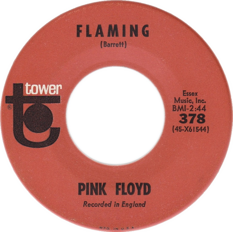 Side-A label of the US 7-inch vinyl single release of "Flaming" by Pink Floyd